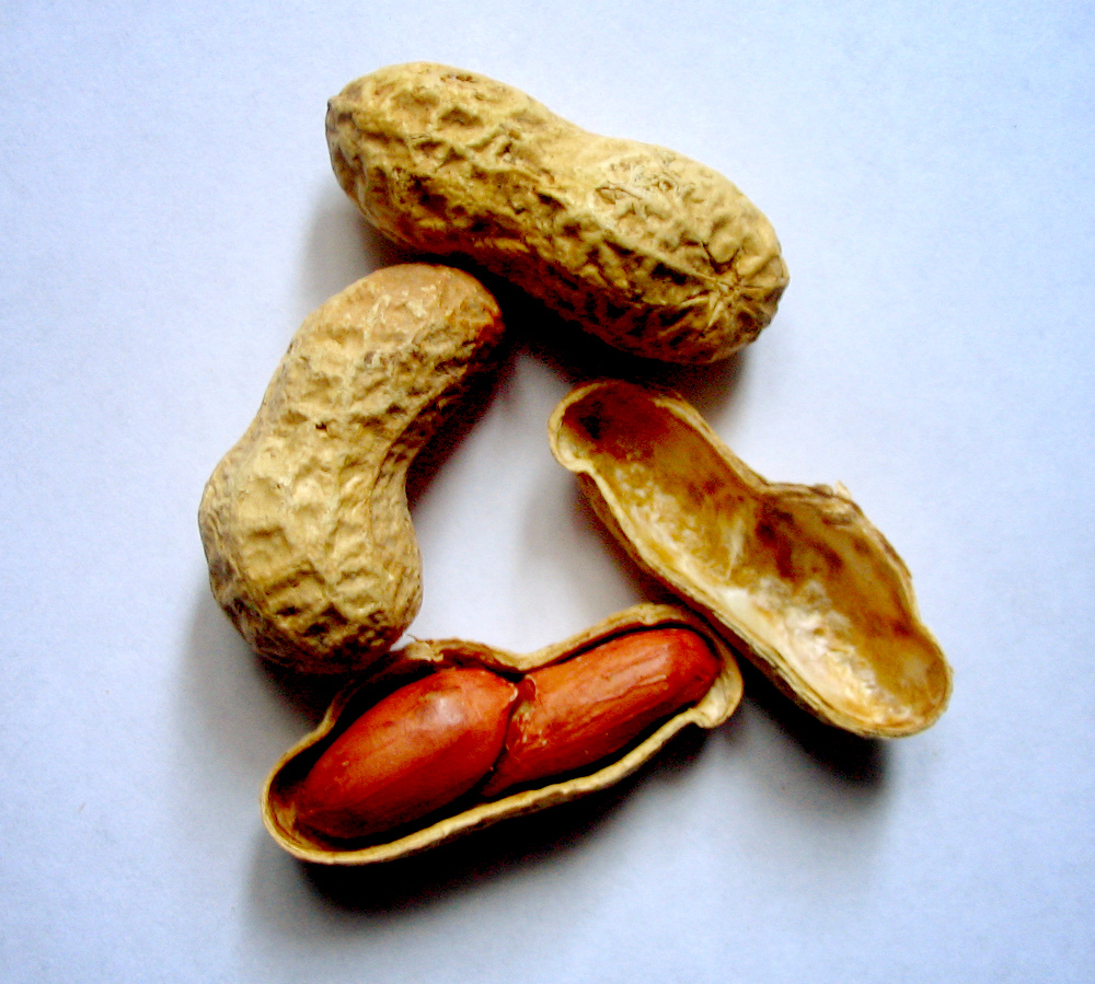 Peanut (Arachis hypogaea)